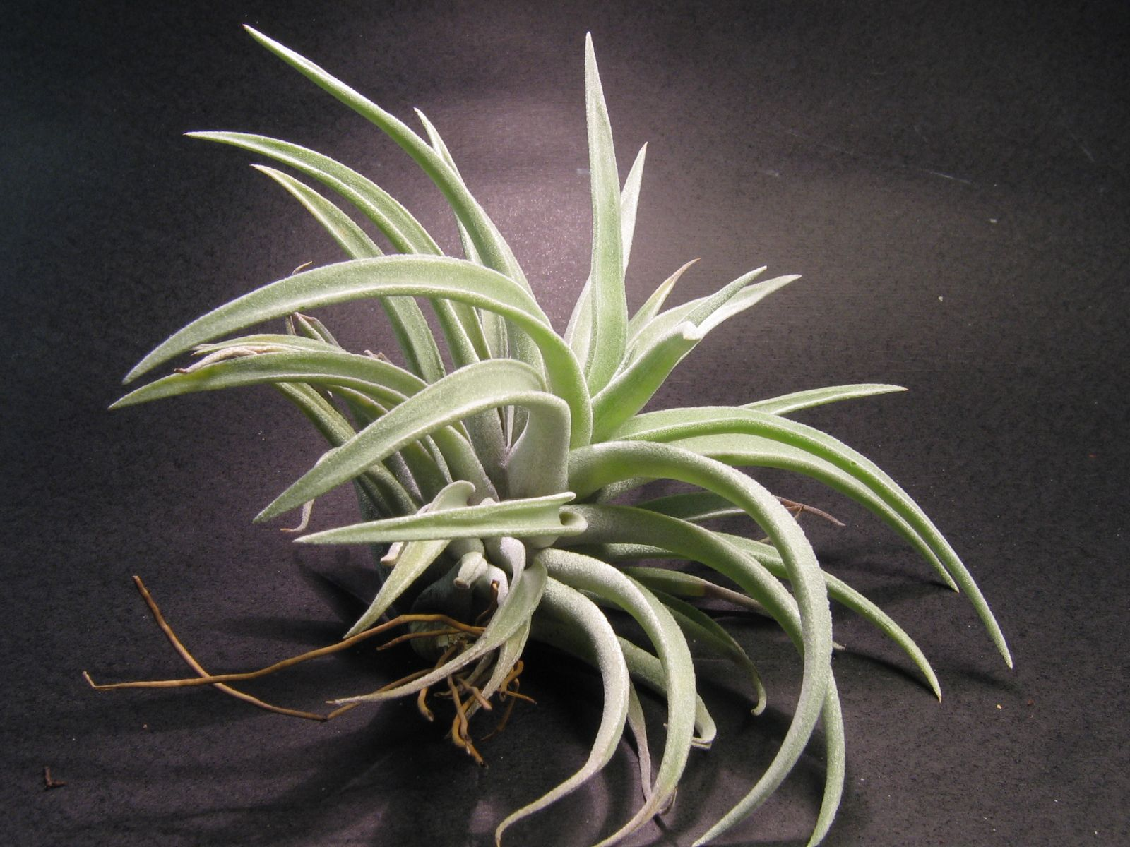 Tillandsia harrisii Appendix II of CITES